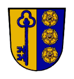 Coat of Arms of Greußenheim